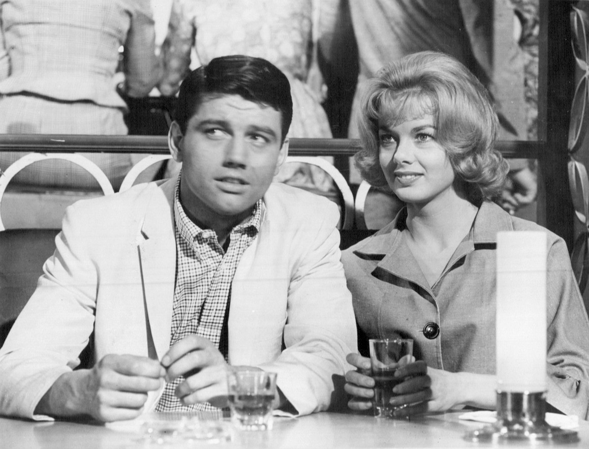 Photo of Ralph Taeger and Leslie Parrish from the short-lived television series Acapulco. The photo has no copyright markings on it as can be seen in the links above.